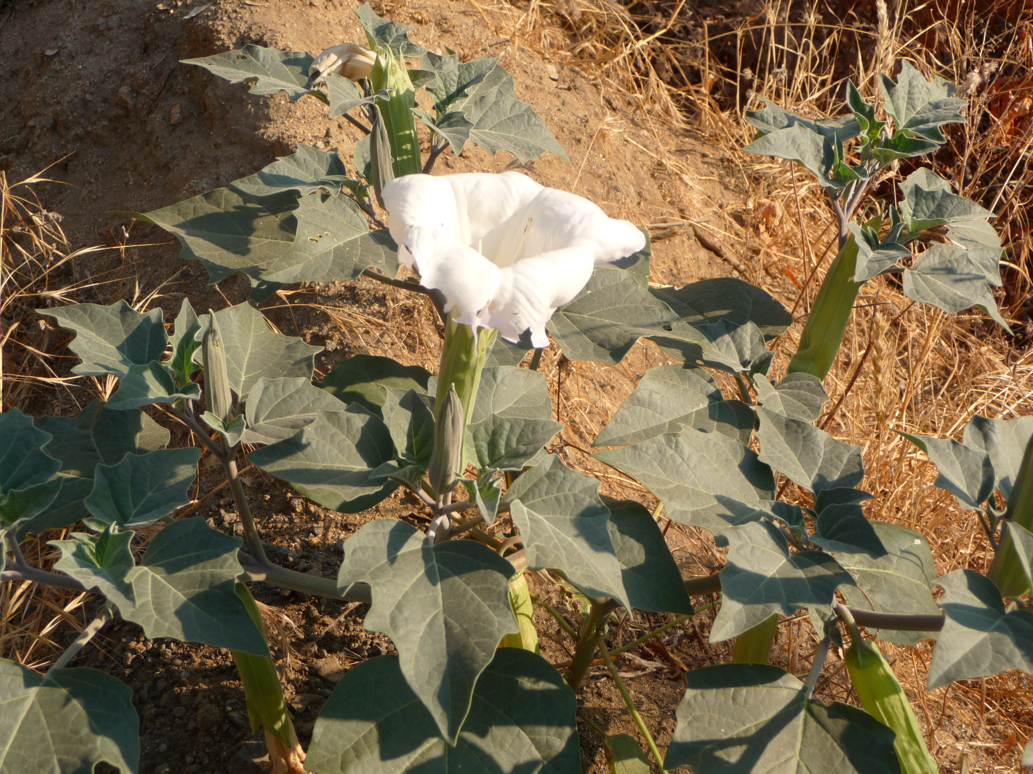 Datura wrightii — Sacred Datura. Off Mineral King Road, Mineral King, Sequoia National Park, California.